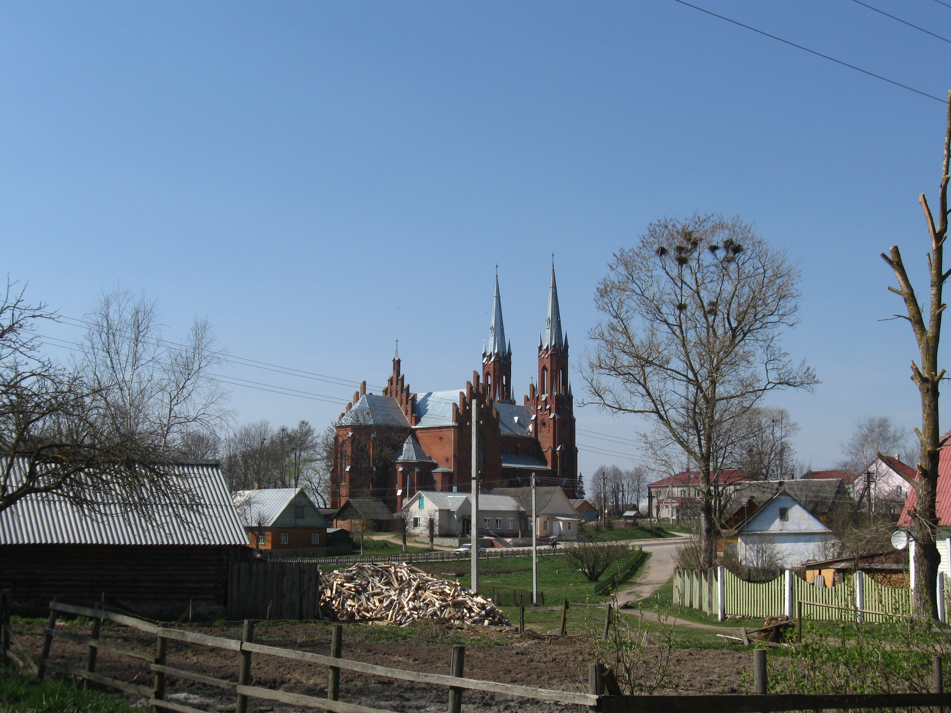 Беларуская (тарашкевіца): Троіцкі касцёл. г. п. Відзы This is a photo of Belarusian heritage monument. Reference number: 213Г000180 ( WLM)